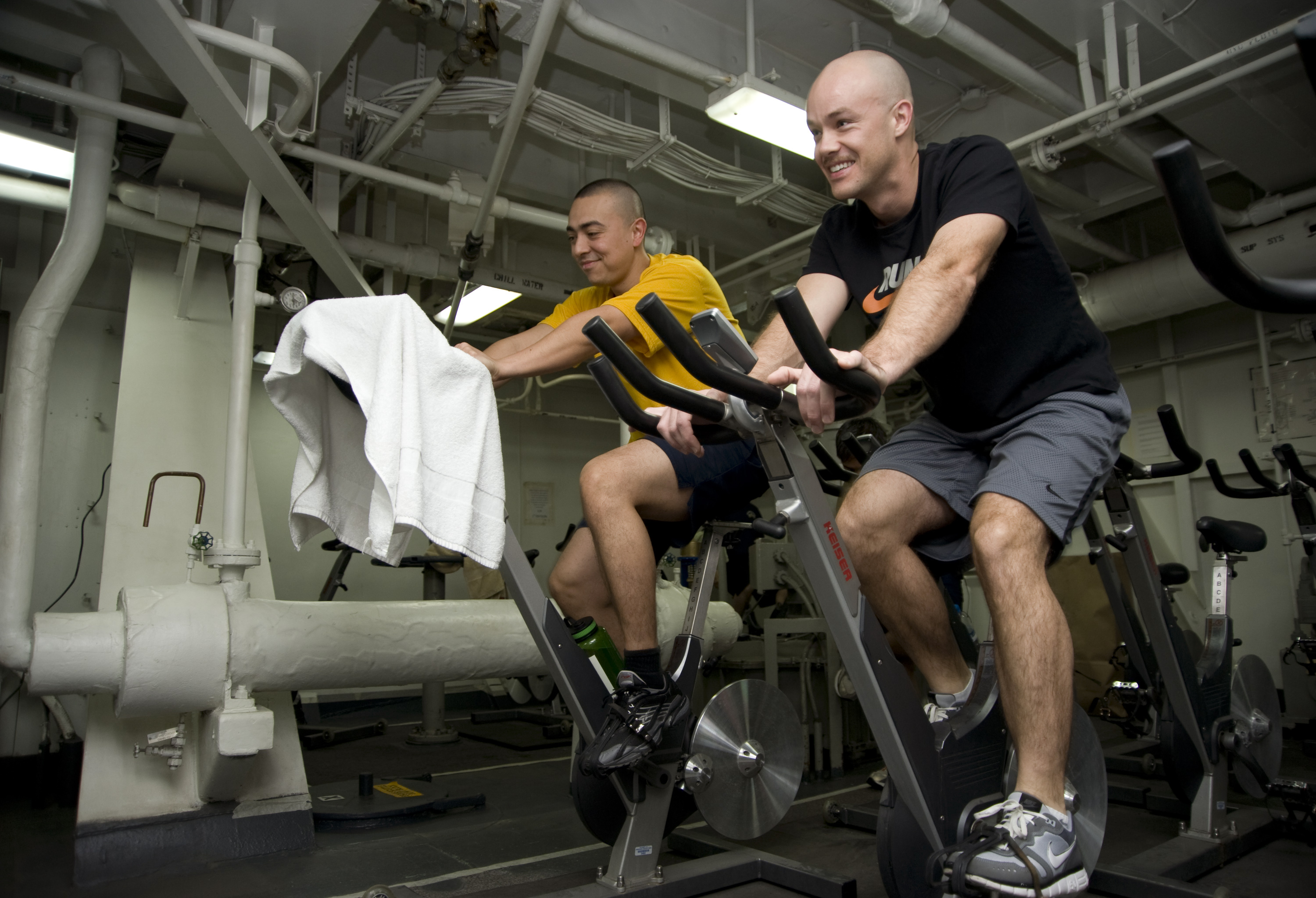 ARABIAN GULF (Feb. 8, 2012) Chief Aviation Boatswain's Mate (Fuel) Richard Palmer participates in a spinning class aboard the Nimitz-class aircraft carrier USS Abraham Lincoln (CVN 72). Abraham Lincoln is deployed to the U.S. 5th Fleet area of responsibility conducting maritime security operations, theater security cooperation efforts and support missions as part of Operation Enduring Freedom. (U.S. Navy photo by Mass Communication Specialist Seaman Apprentice Karolina A. Martinez/Released)